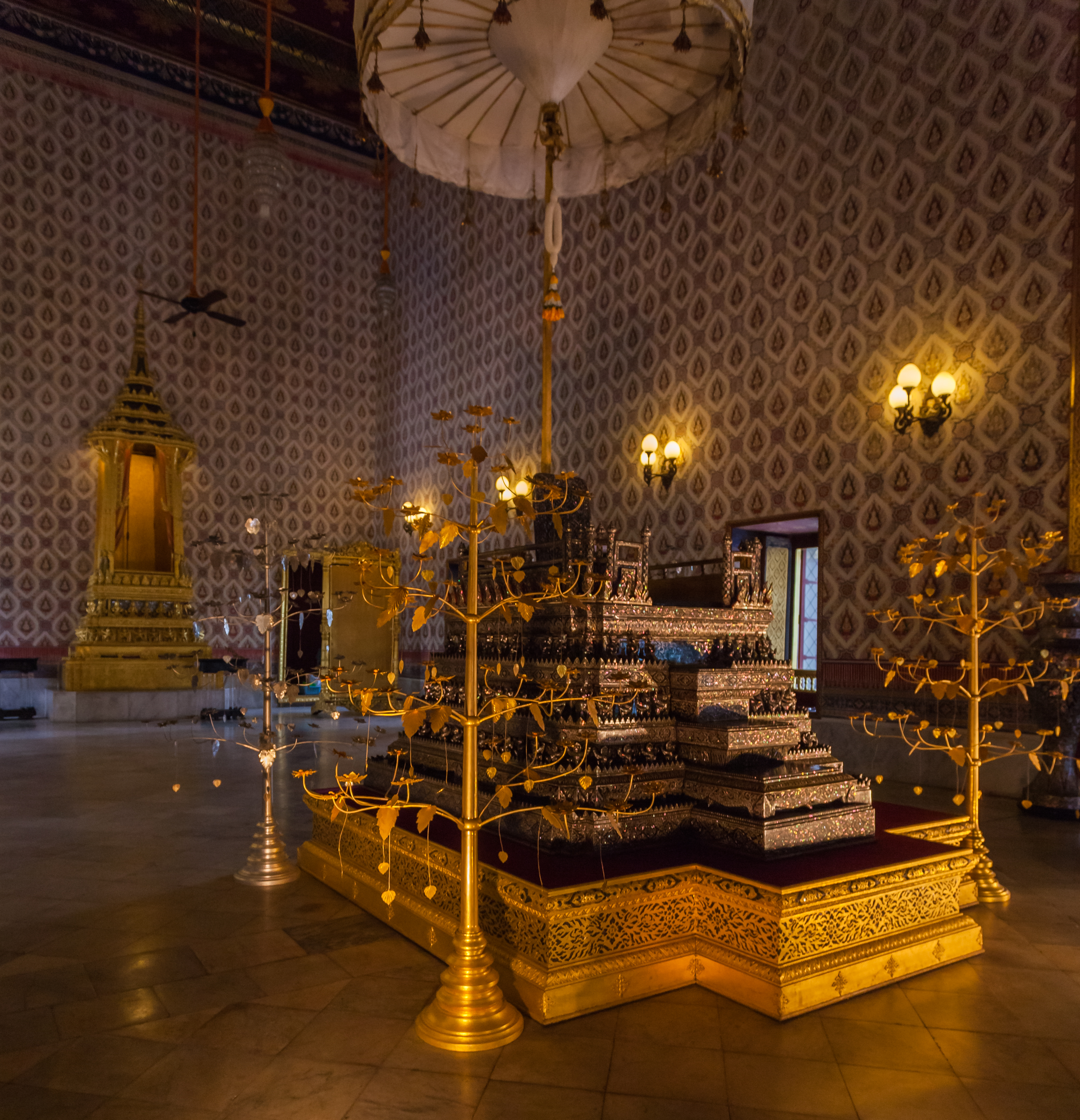 Gradn Palace, Bangkok, Thailand